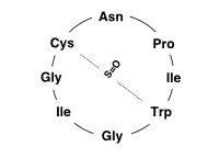 Alpha-amanitin cyclic peptide structure (schematic)